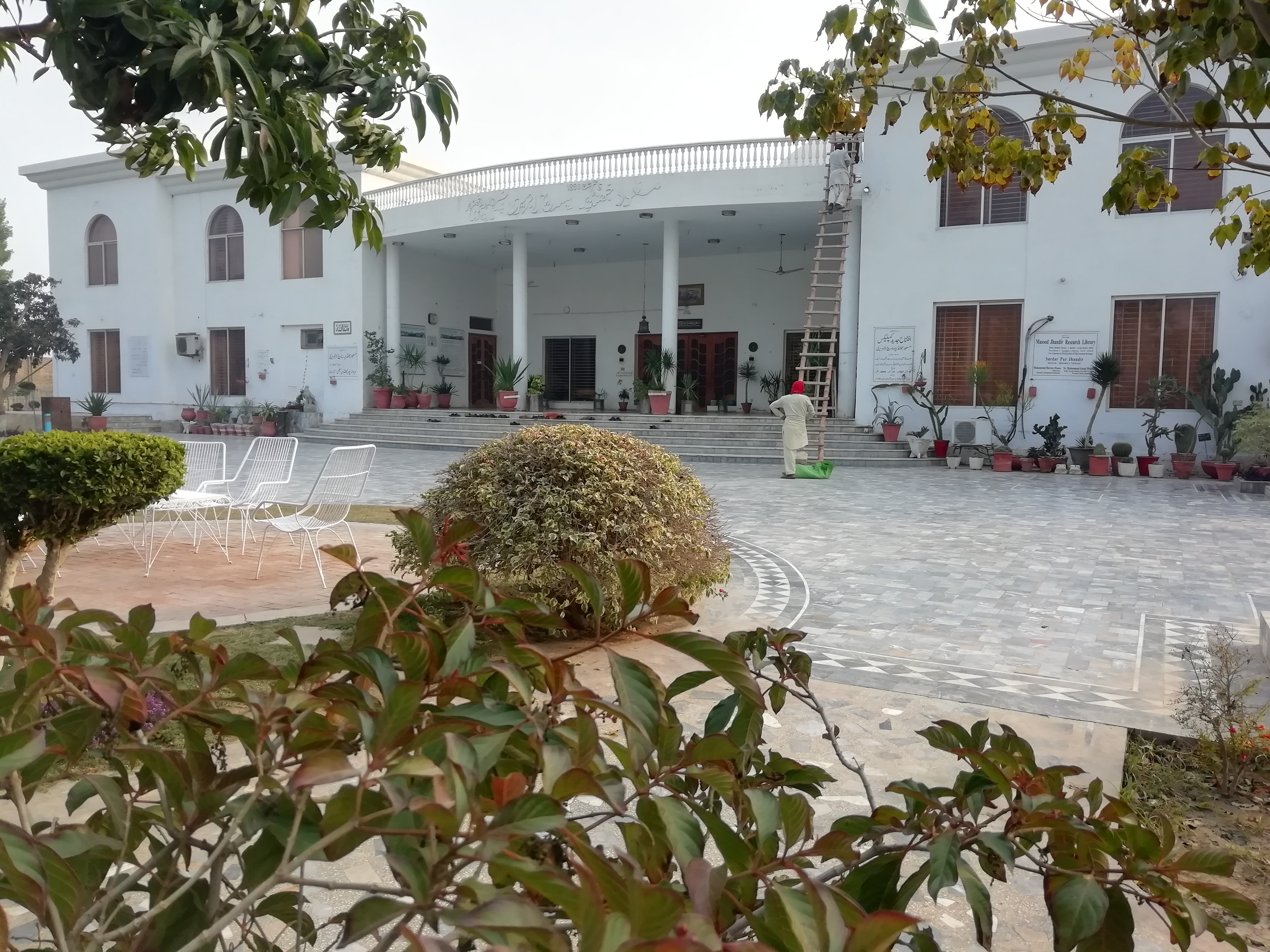 its largest public library in pakistan